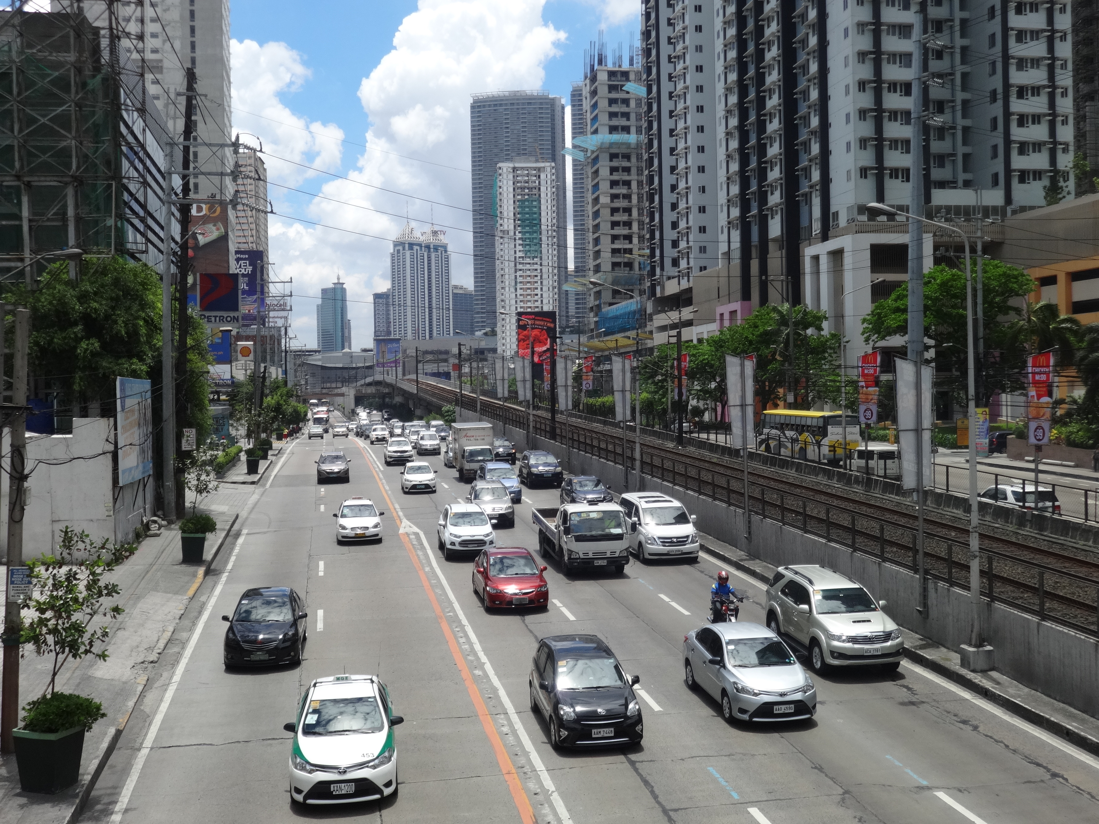 Reliance portion of E. Delos Santos Avenue (EDSA, AH26) in Mandaluyong City. EDSA is a component of AH26, the country's main national highway.